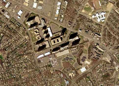 Overhead imagery of the Skyline Center, Falls Church, Virginia